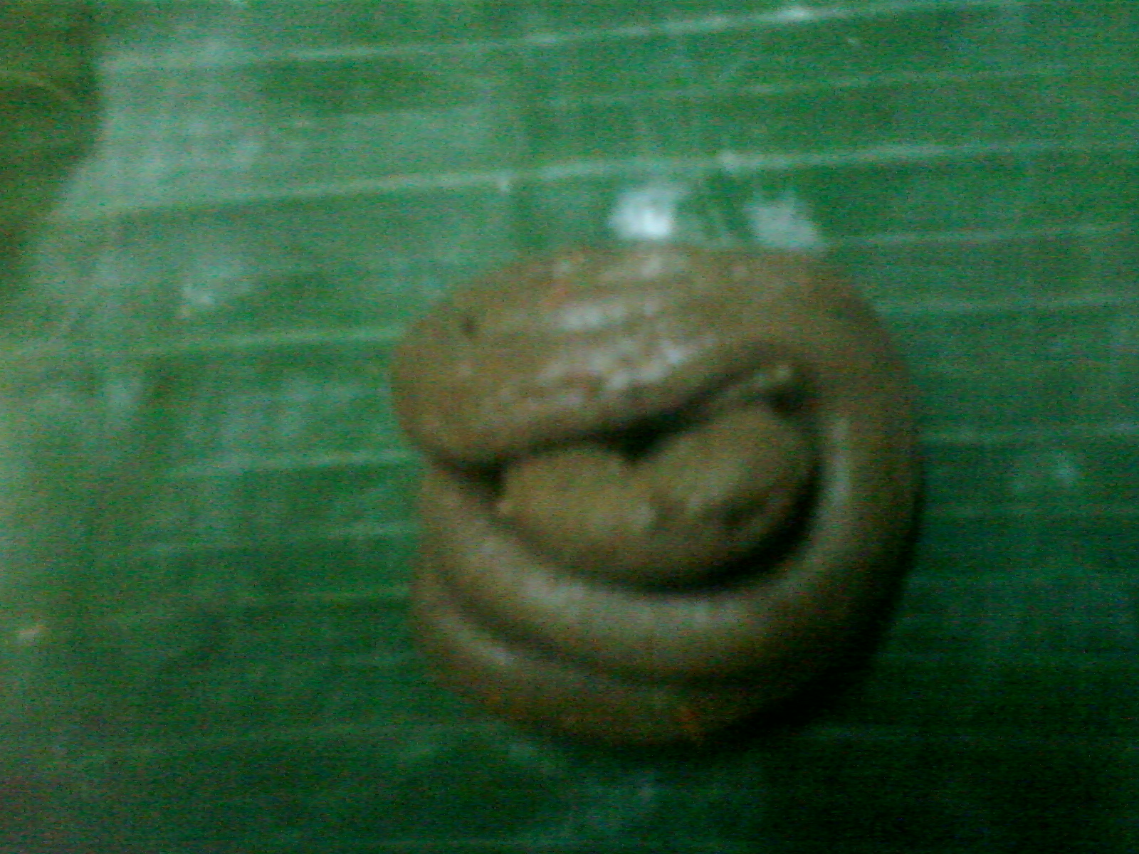 Astabandham is group of materials to fix the Hindu idols to its Peeda.